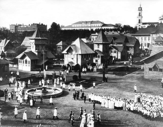 Tercentenary Enhibition in Kostroma